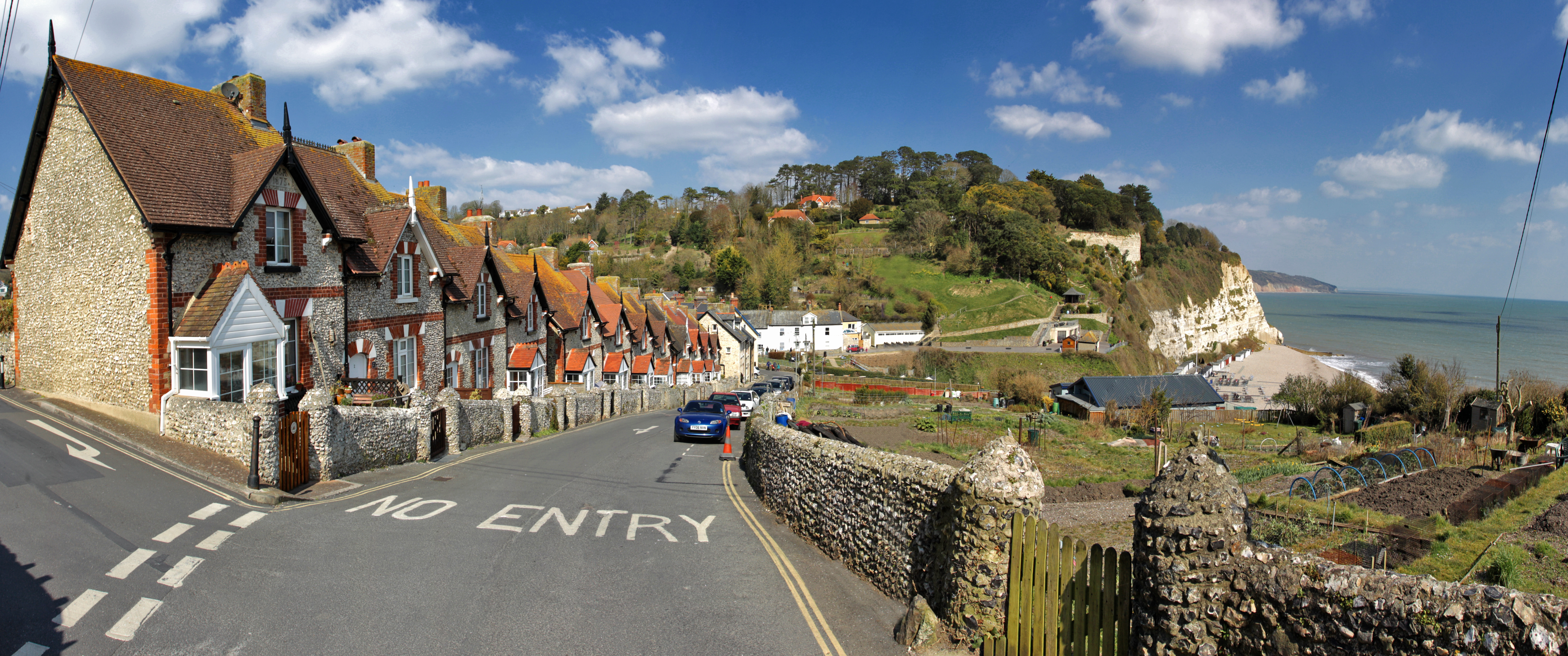 Beer, Devon, Common Lane